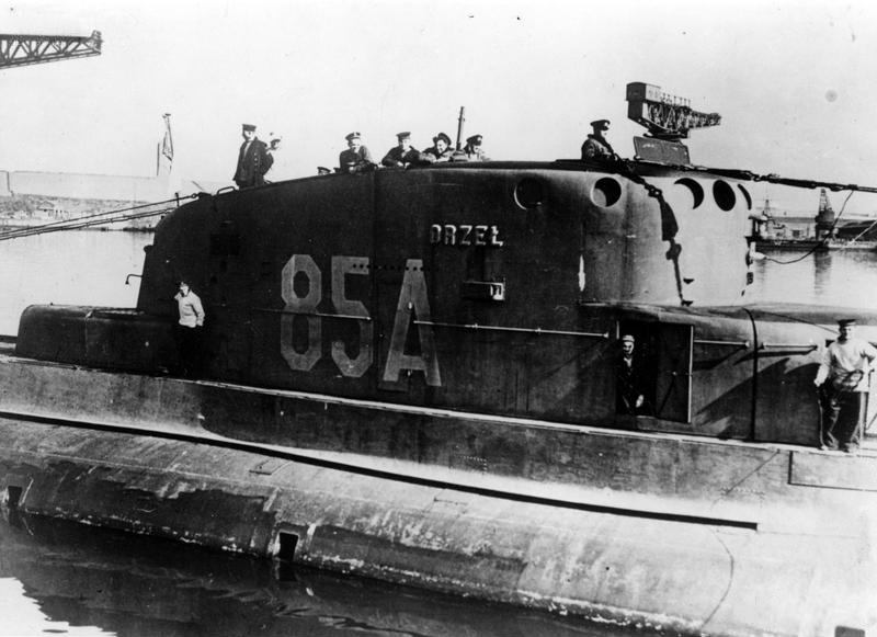 Polish submarine ORP Orzeł in English port, 1940.( Submarine have sunk in May 1940)